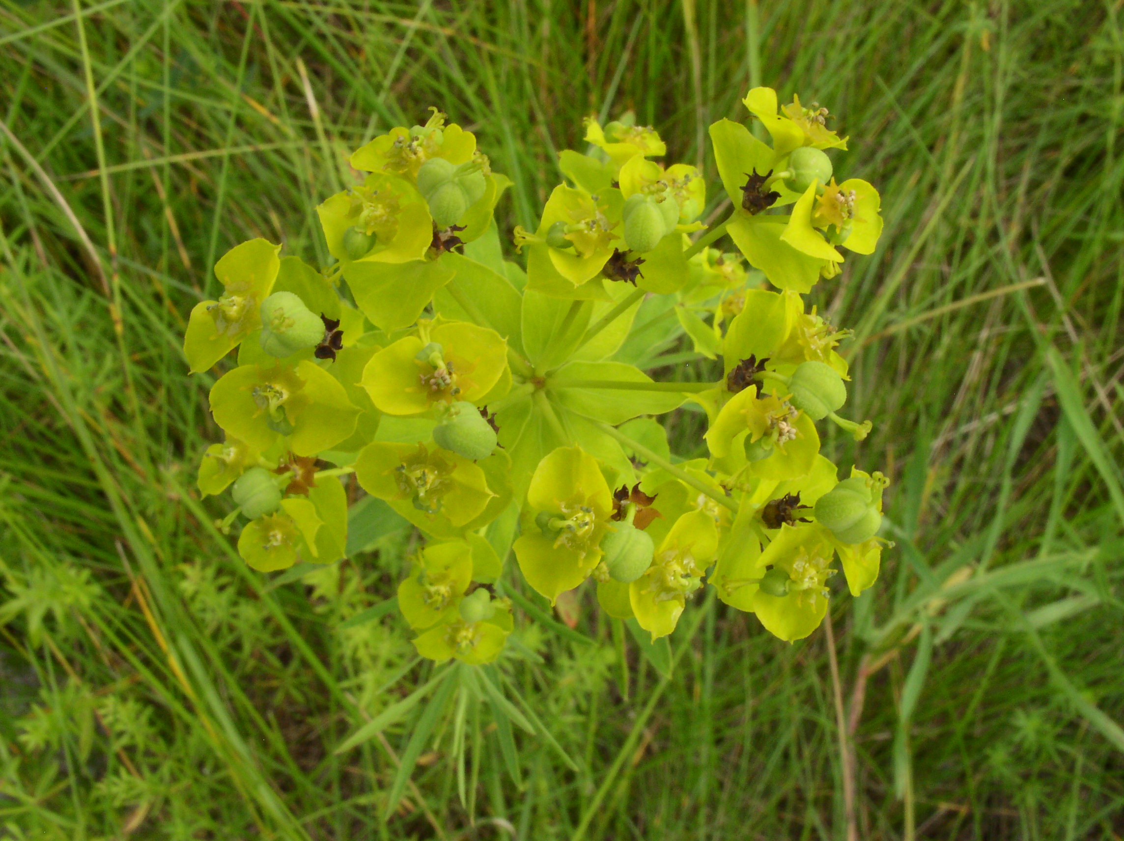 Euphorbia esula inflorescence as seen from above in Savonlinna, Finland.